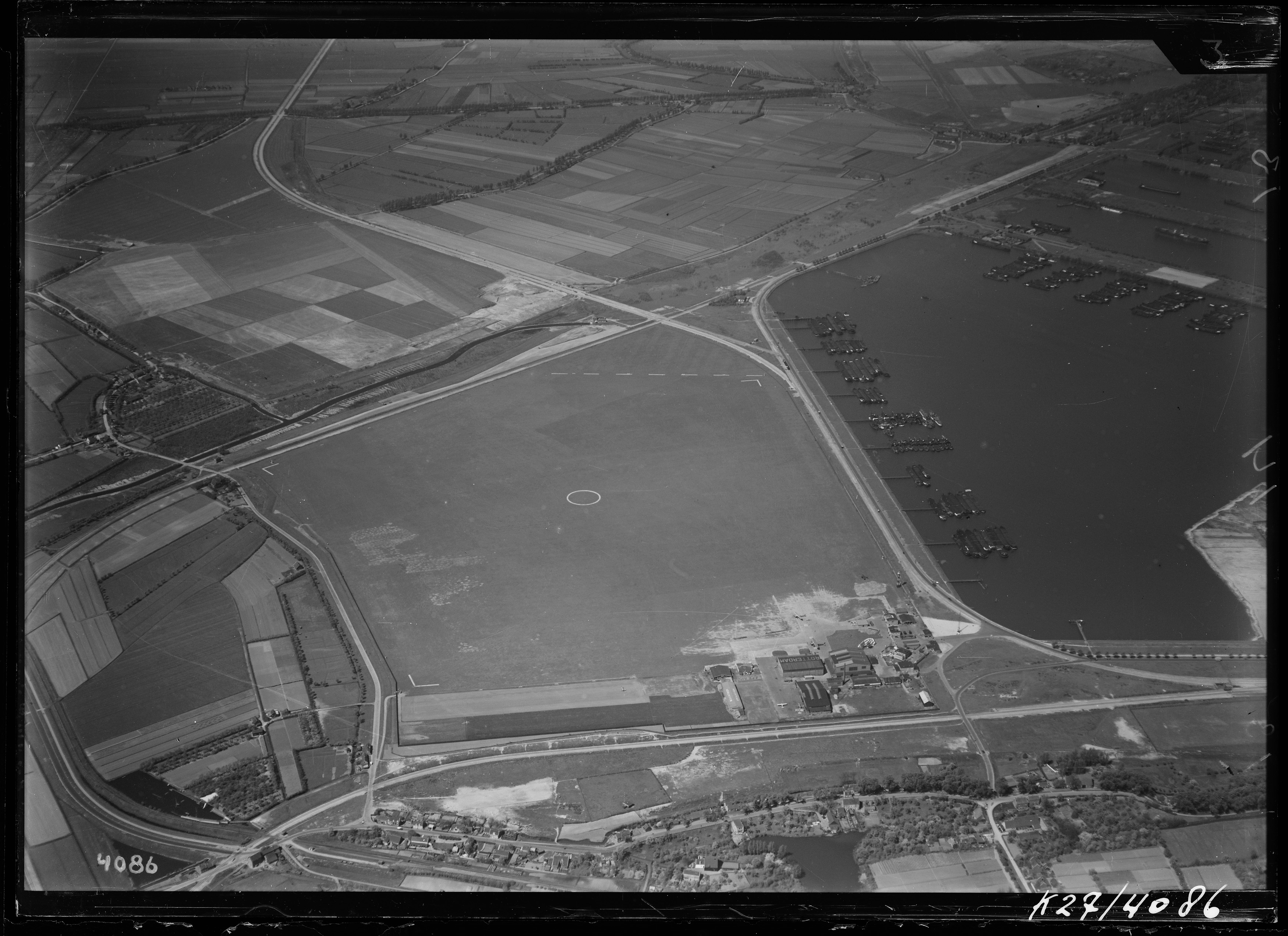 Aerial photograph of Waalhaven Airport in Rotterdam, The Netherlands.